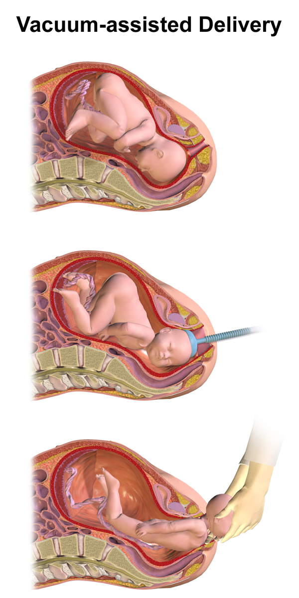 Vacuum-assisted Delivery. See a full animation of this medical topic.